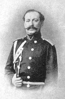 Nobility from Georgia. Illustration from Letopis' Gruzii, edited by B. Esadze, 1913.